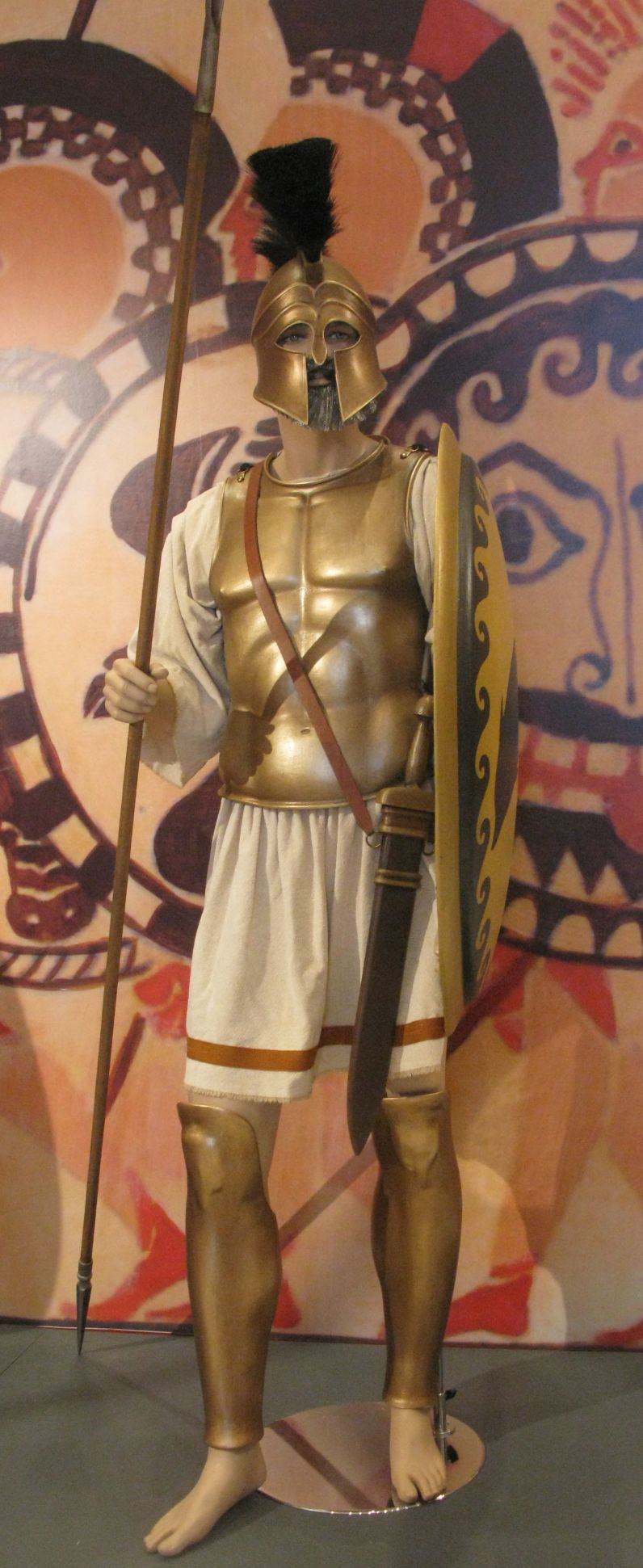 Athenian hoplite holding aspis, corinthian helmet and xyphos. Exhibition "Democracy and the Battle pof Marathon" 23 Oct. 2010 - 1 Nov. 2010, Zappeio, Athens, Greece.